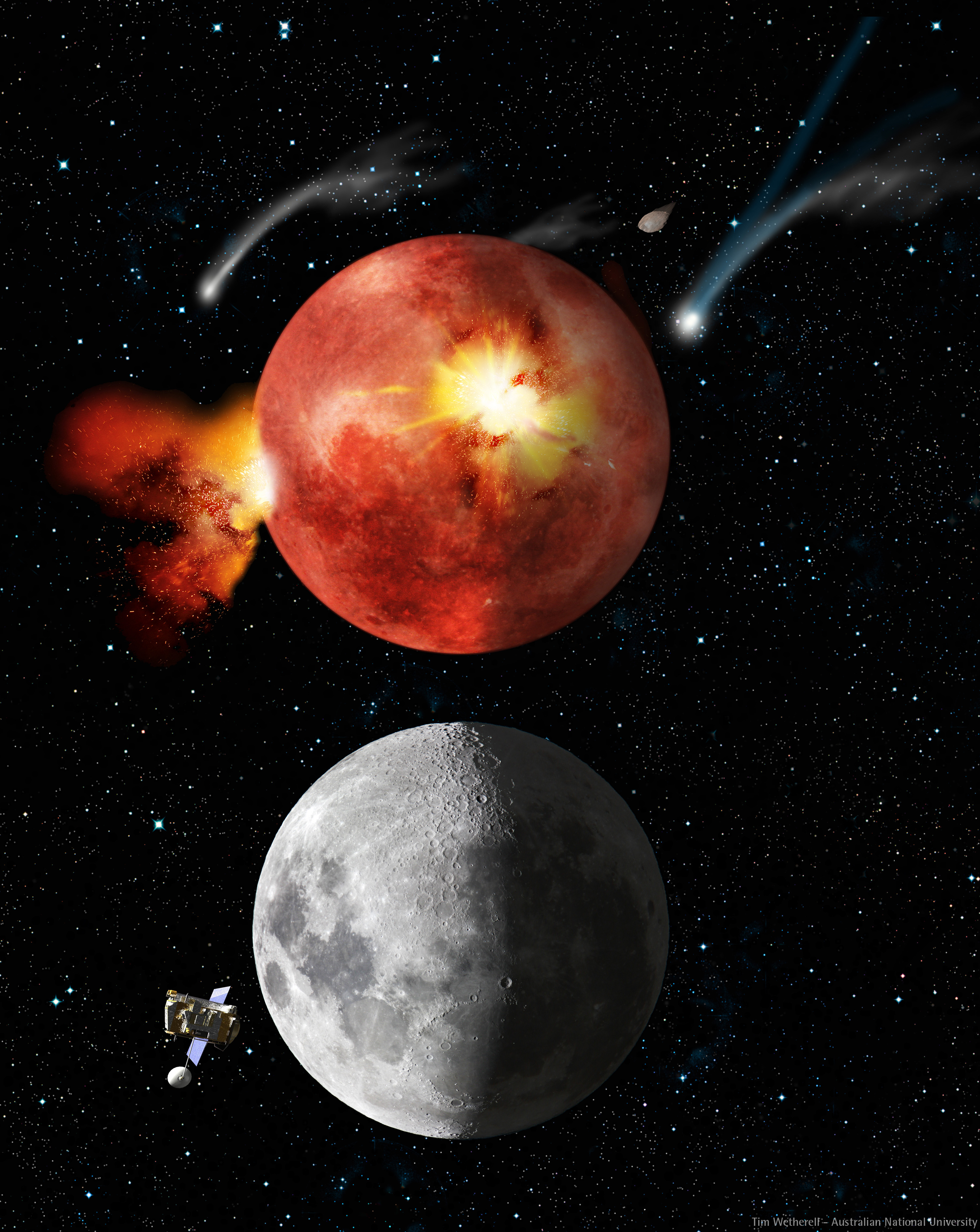 Artists impression of the moon during the Late Heavy Bombardment (Lunar Cataclysm) and today